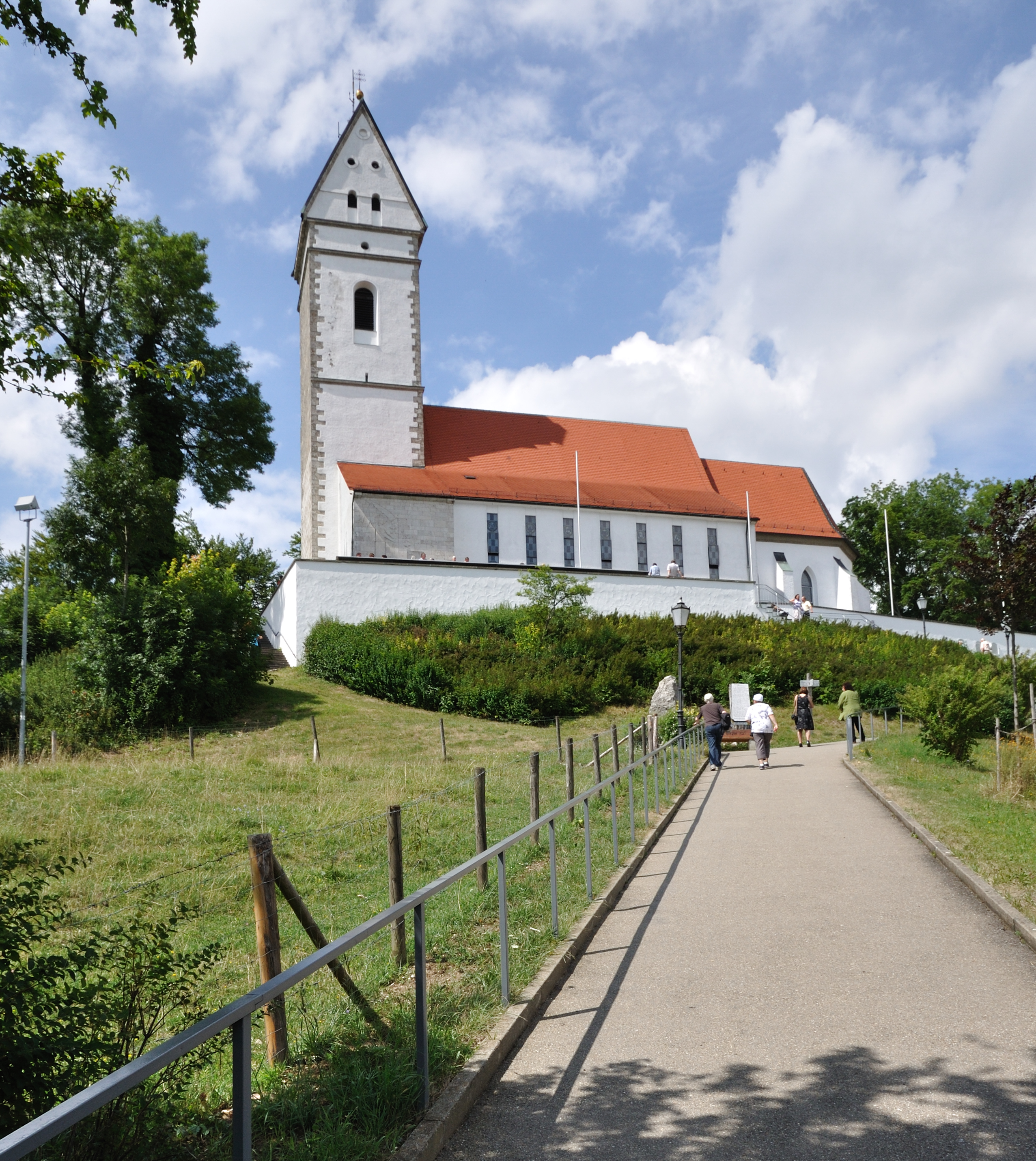 The pilgrimage church St. Johann Baptist on the Bussen, "holy hill" of Oberschwaben